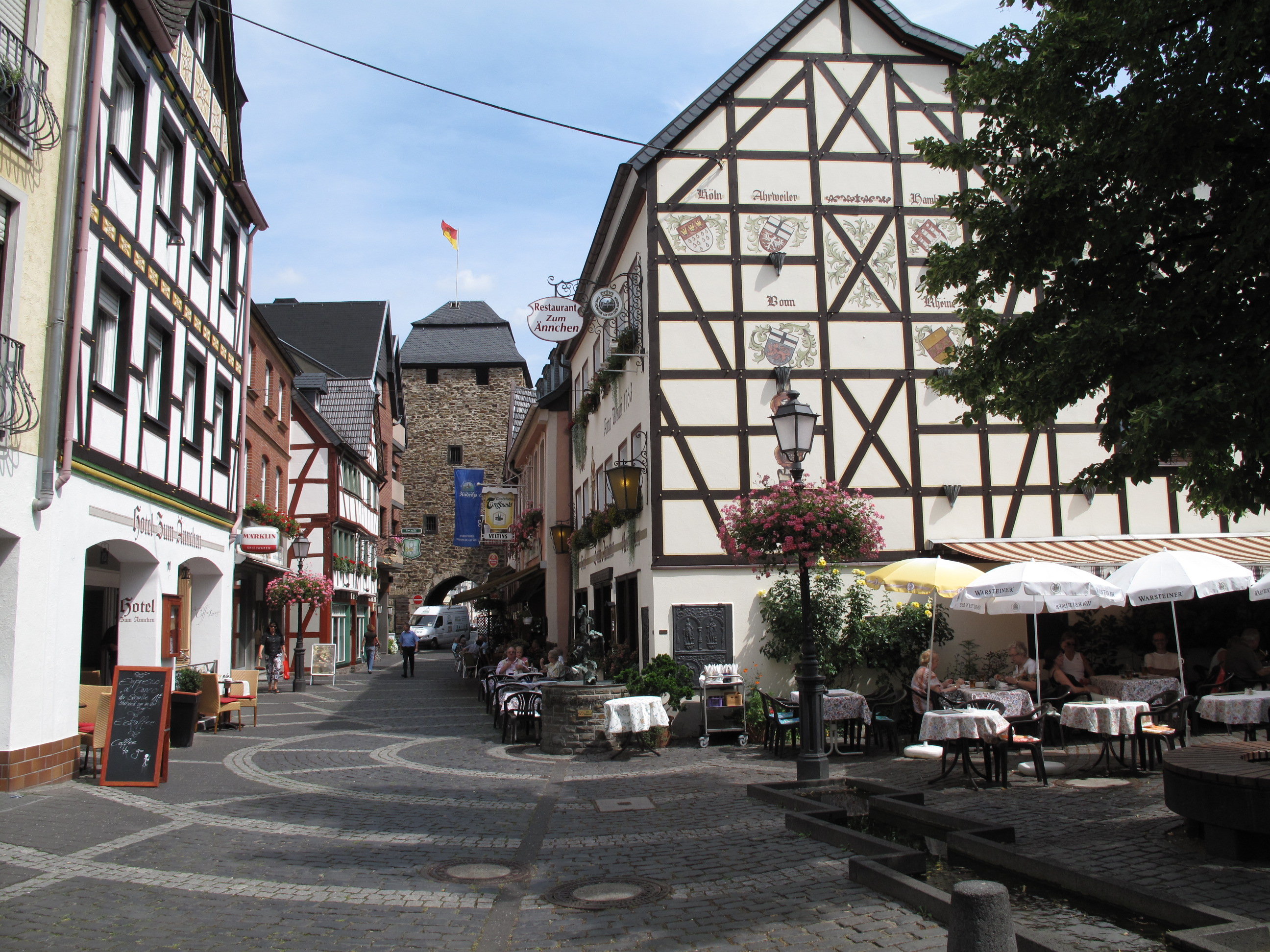 Ahrweiler, monumental buildings